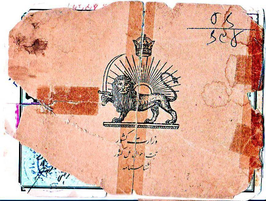 Iranian Shenasname (National ID) during Pahlavi dynasty